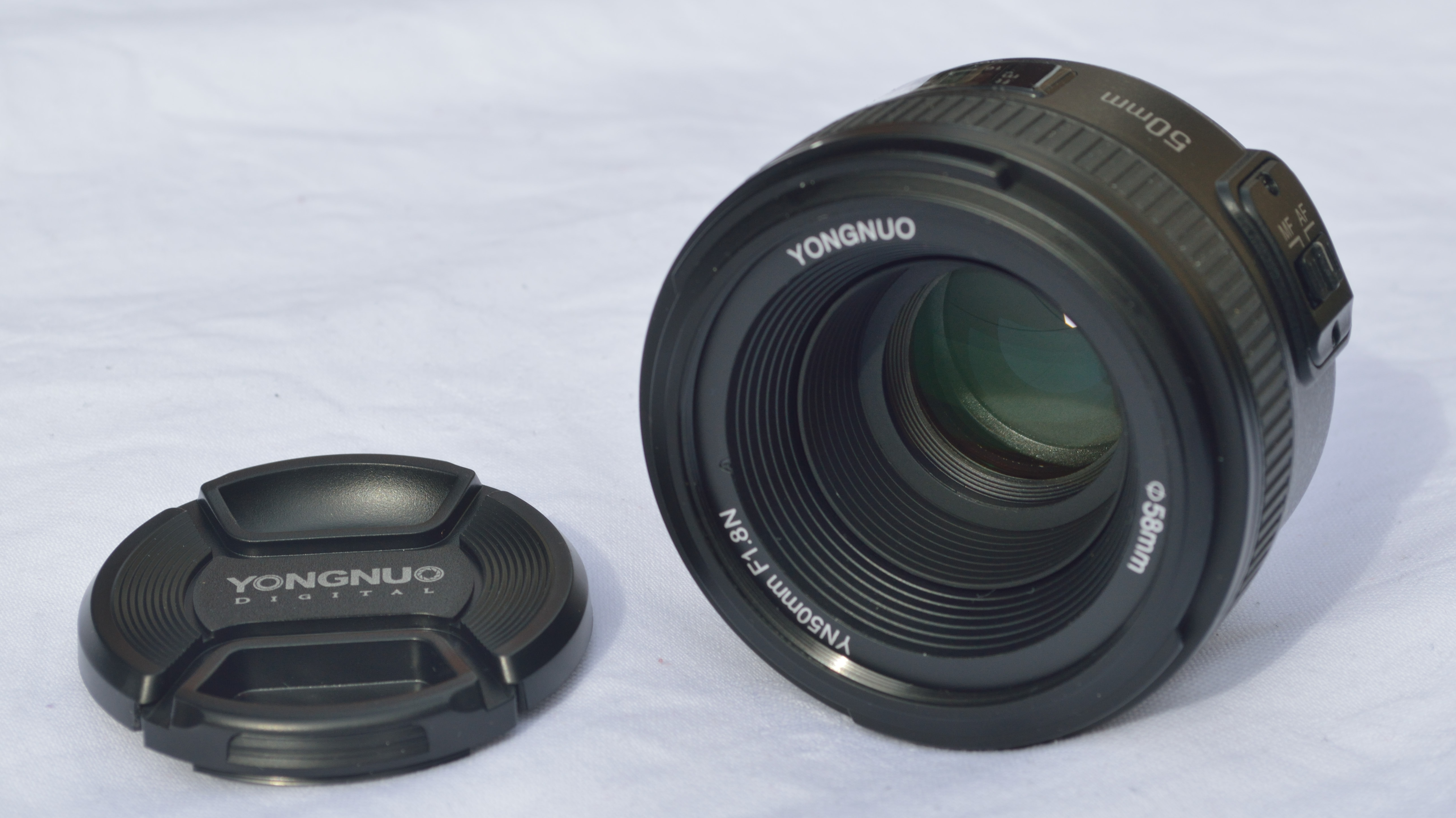 Yongnuo YN50mm F1.8N, a Nikon F-mount compatible autofocus prime lens.